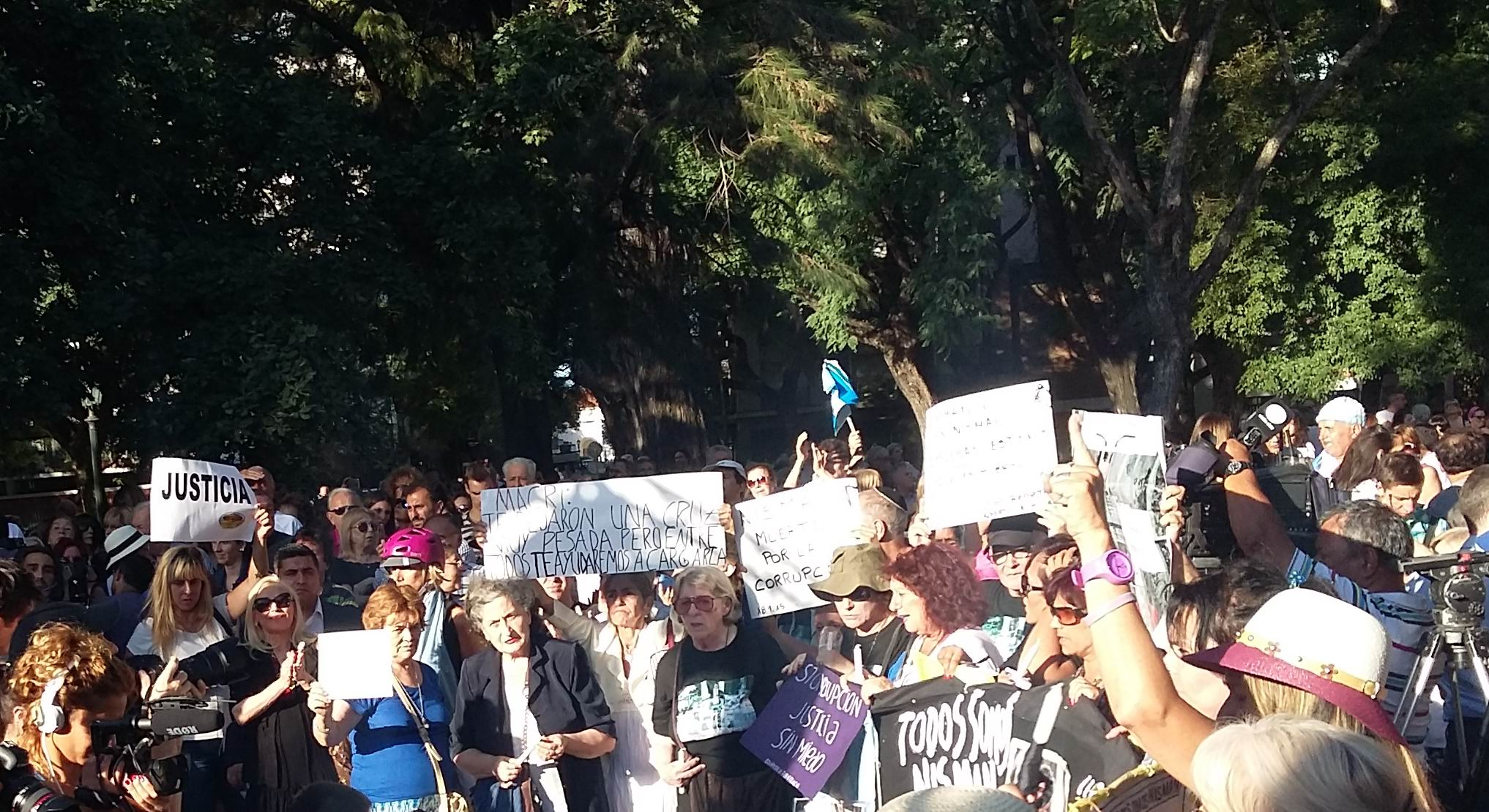 Protest march in Buenos Aires 1 year death anniversary of Alberto Nisman